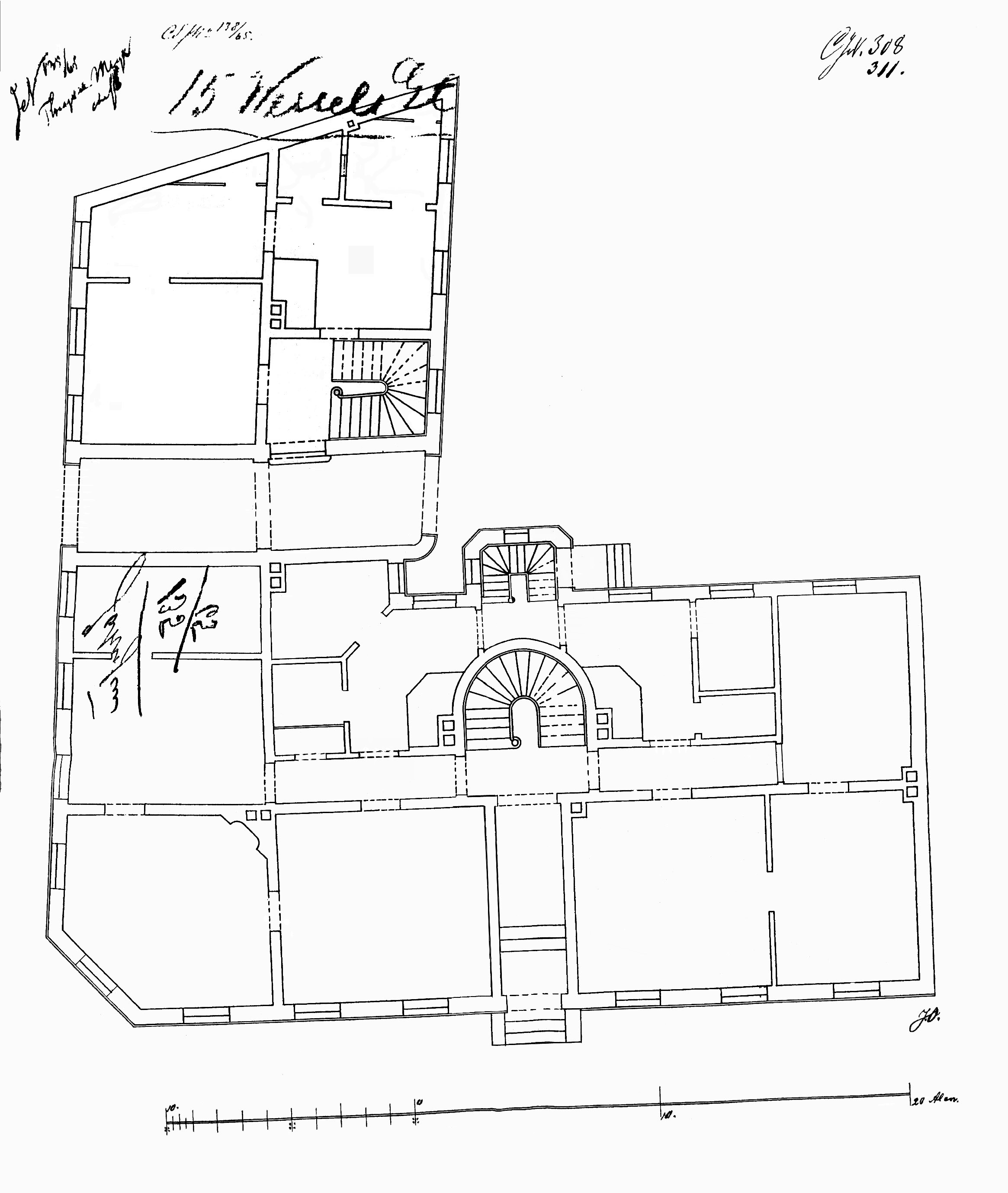 Ground plan of tenement building on 15 Wessels gate, Christiania (Oslo). Submitted with application for building permission in 1865.